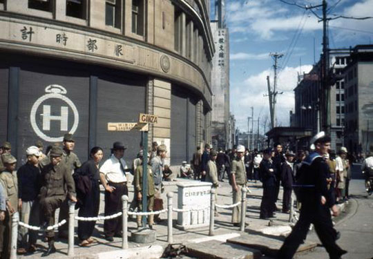 Caption:Look at the past: A 1945 photo by by Gaetano Faillace shows the building of Hattori Tokei-ten (K. Hattori & Co. — the predecessor of Seiko Holding Corp.), requisitioned for use as a U.S. military commissary, at the Ginza 4-chome intersection. Present day location is here